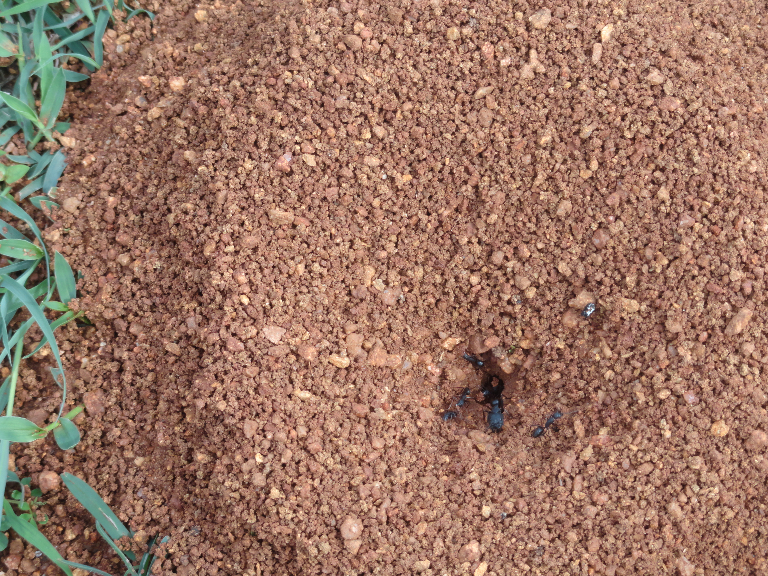 చీమల పుట్ట